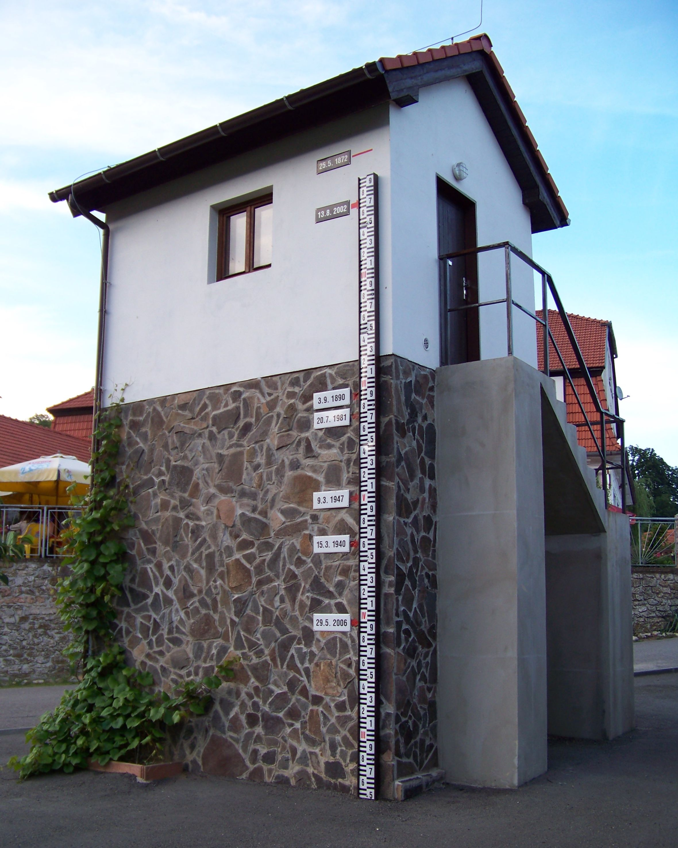 Srbsko, Beroun District, Central Bohemian Region, the Czech Republic.